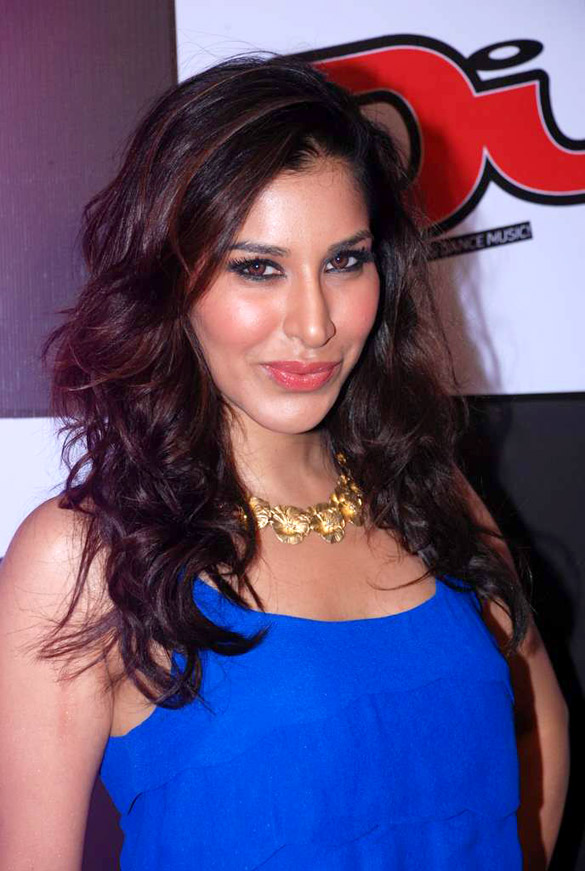 Sophie Choudry at DJ magazine launch